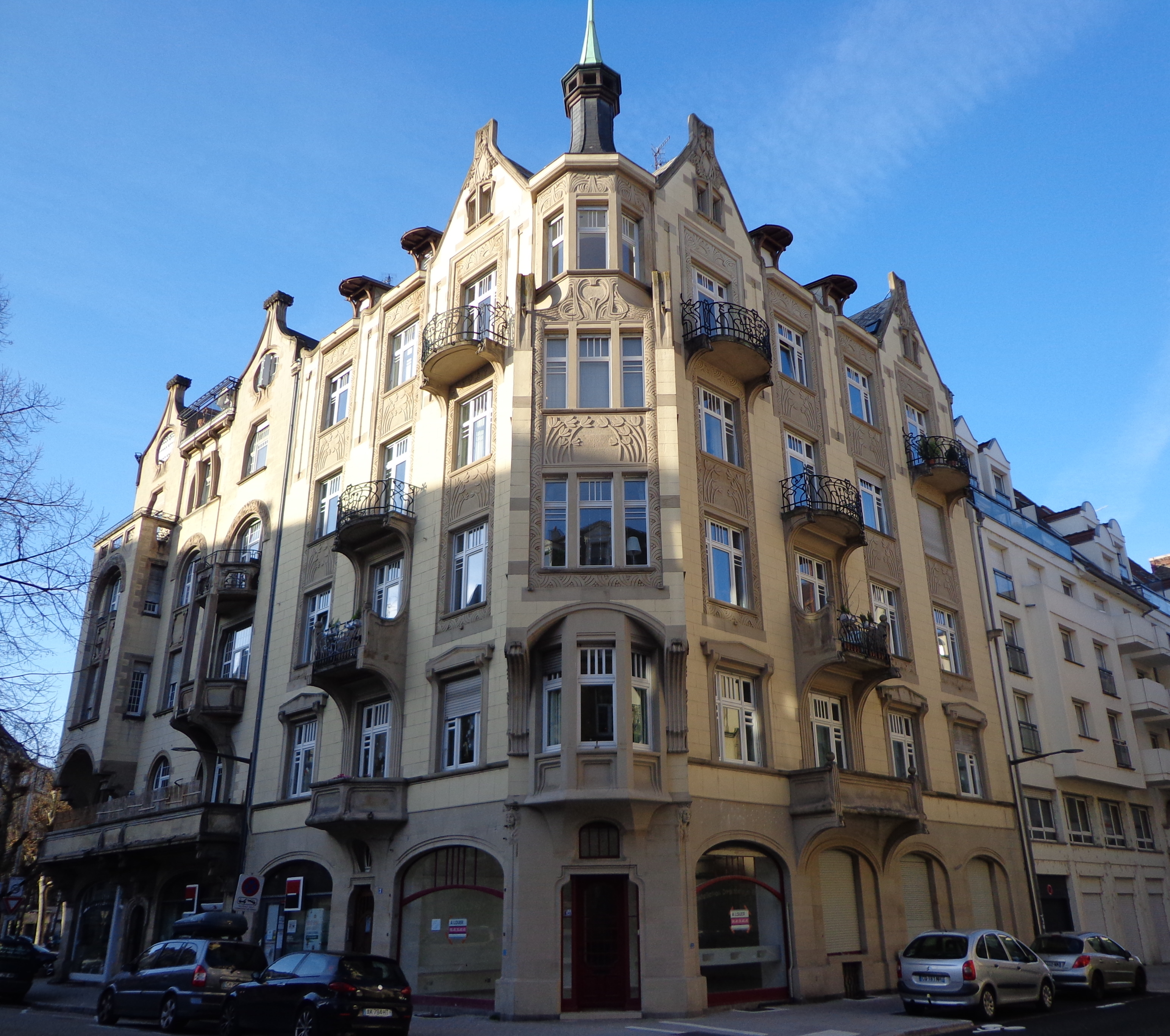 1904 Art Nouveau houses in Strasbourg, France